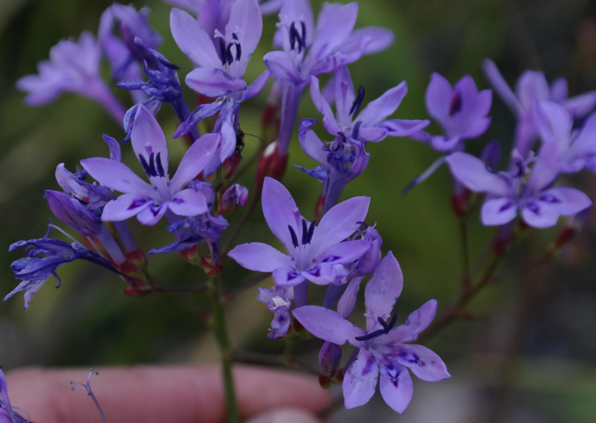 Fire Kabong (Schizorhiza neglecta)